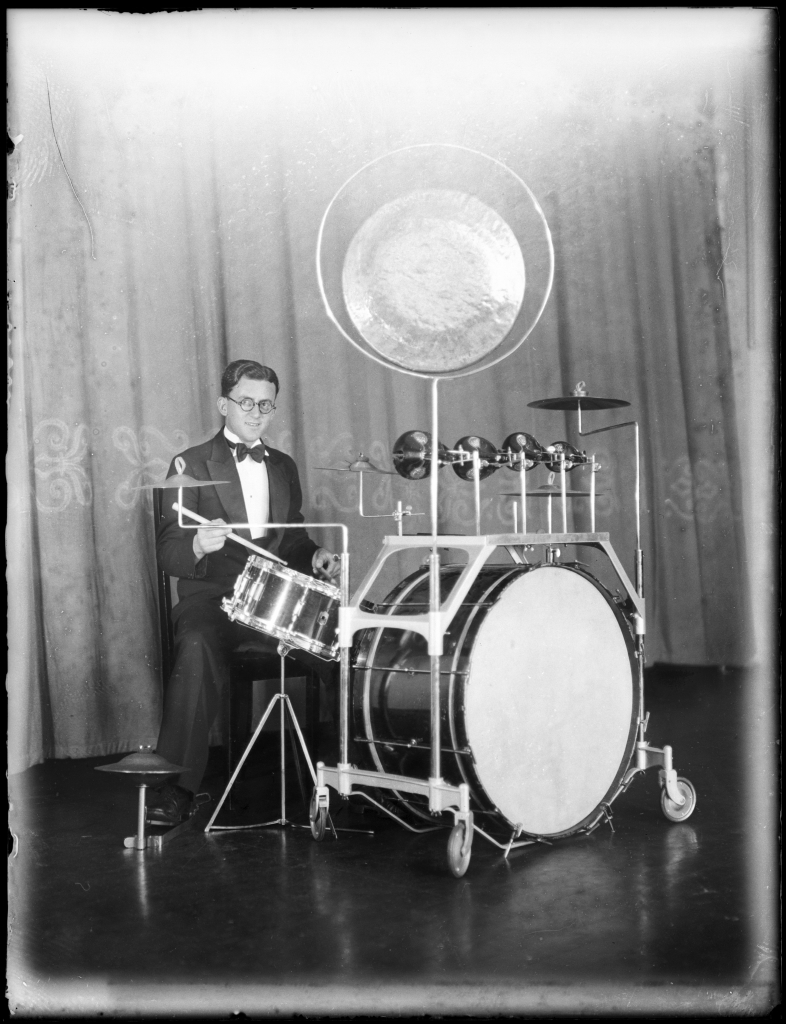 A photo from the Tom Lennon Photographic Collection from the Powerhouse Museum. This file was posted to Flickr by The Powerhouse Museum (See the archive of their website for further information). Many thanks to the Powerhouse Museum for helping release this wonderful material. This tag does not indicate the copyright status of the attached work. A normal copyright tag is still required. See Commons:Licensing for more information.